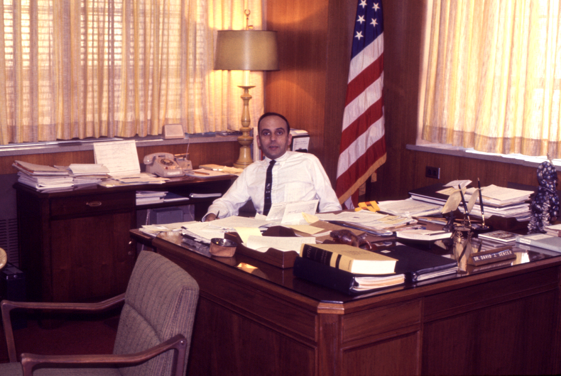 This is a 1970 image of Dr. David Sencer, former Dir. of the Centers for Disease Control and Prevention from 1966 through 1977. The CDC serves as the national focus for developing and applying disease prevention and control, environmental health, and health promotion and education activities designed to improve the health of the people of the United States.